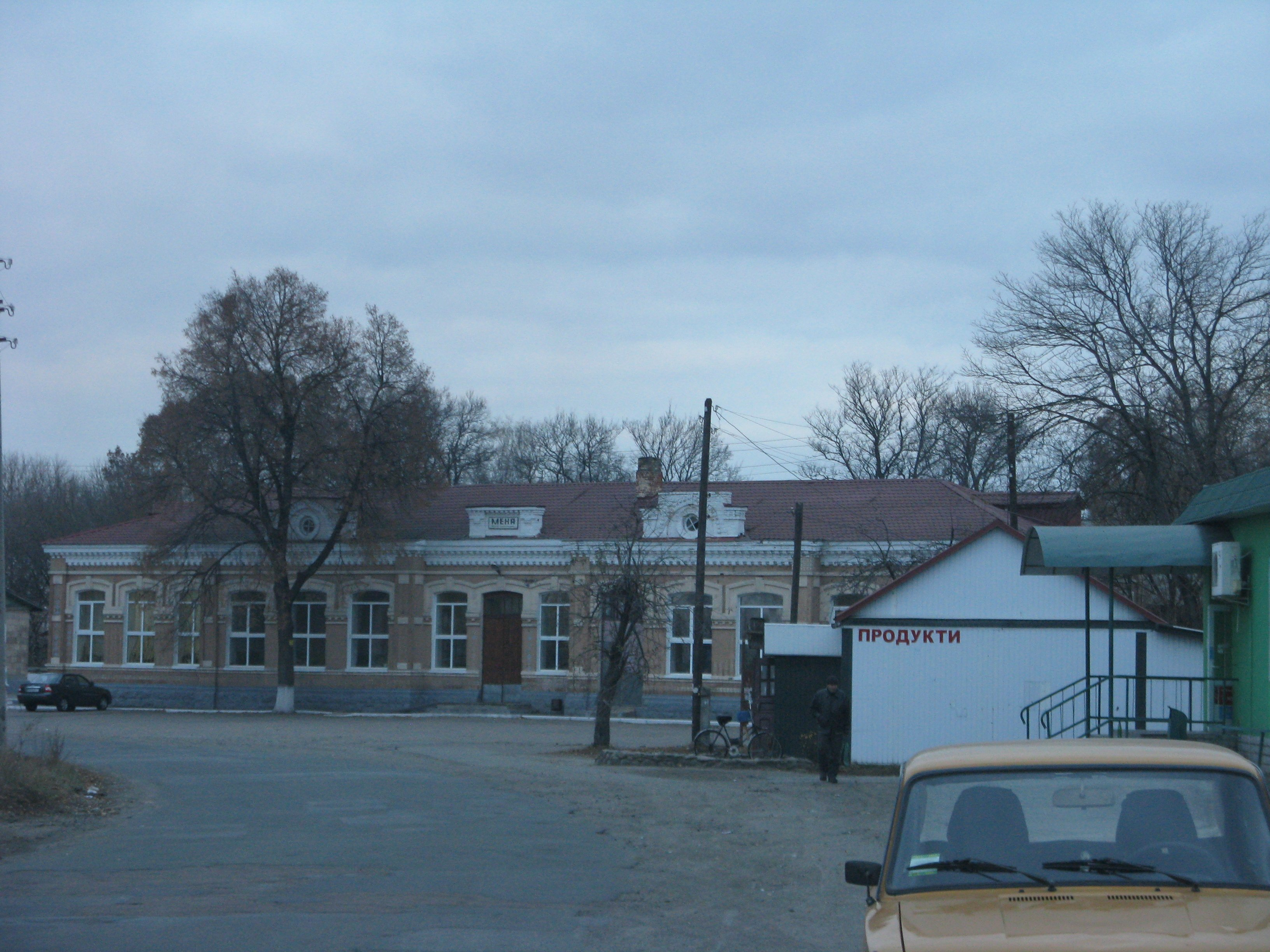 Mena, Chernihiv Oblast, Ukraine